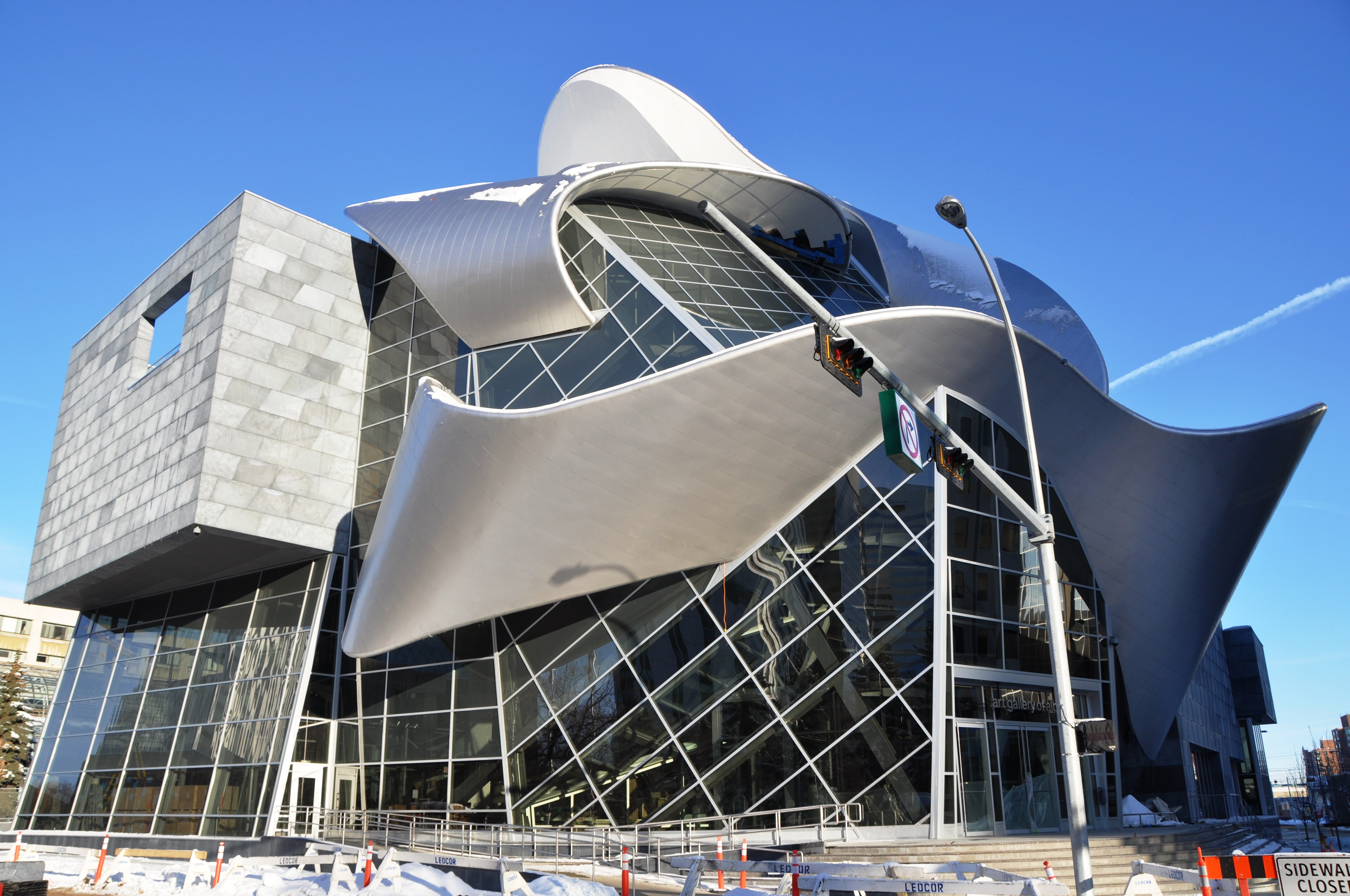 The near-completion Art Gallery of Alberta in Edmonton